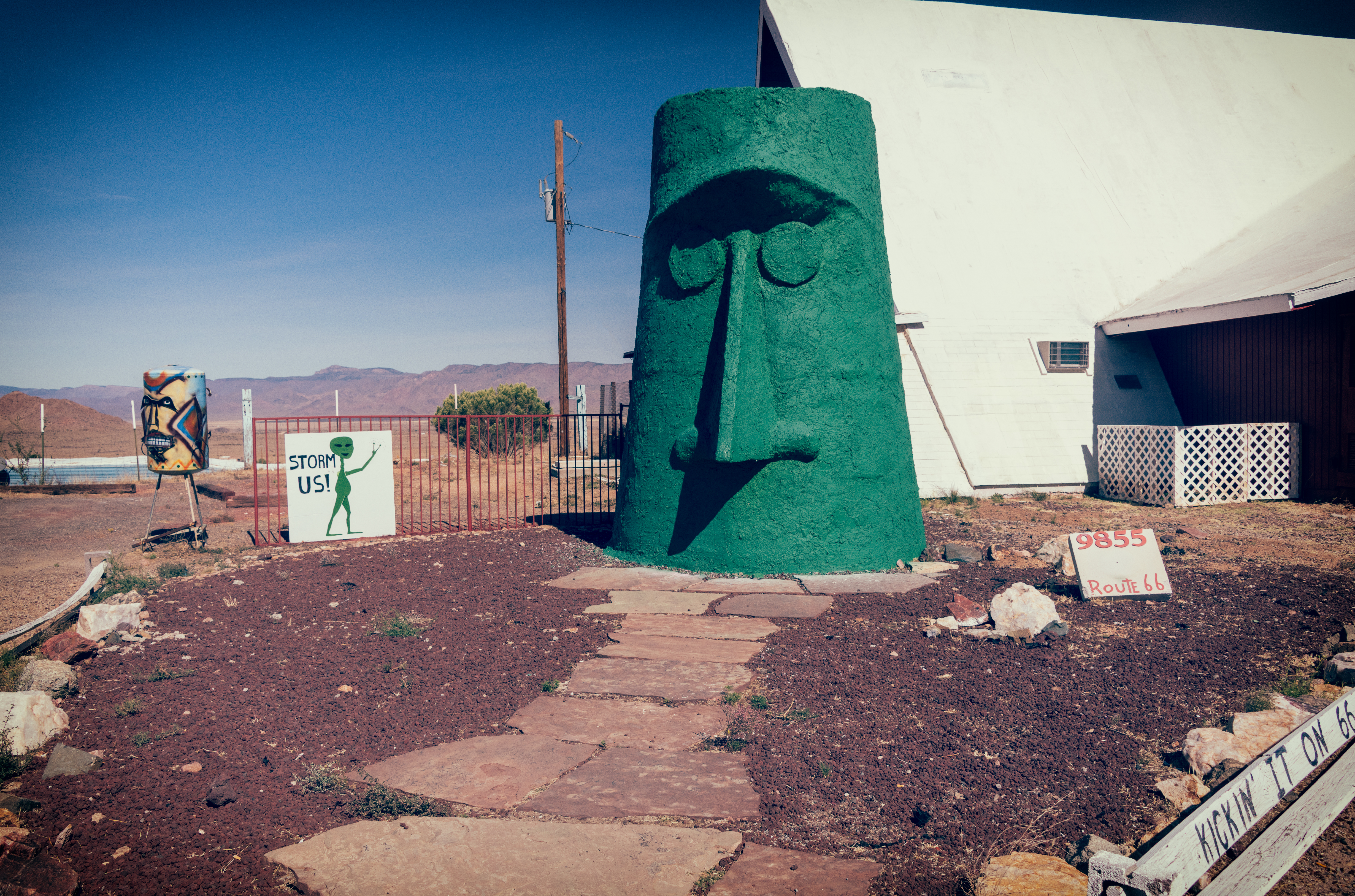 Storm the Giant Head